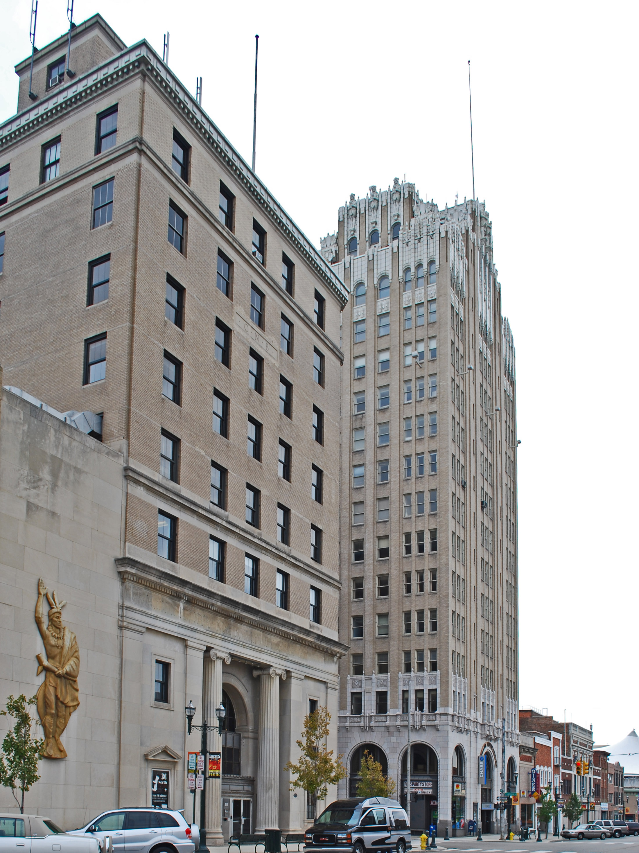 Pontiac Commercial Historic District, N. Saginaw Street